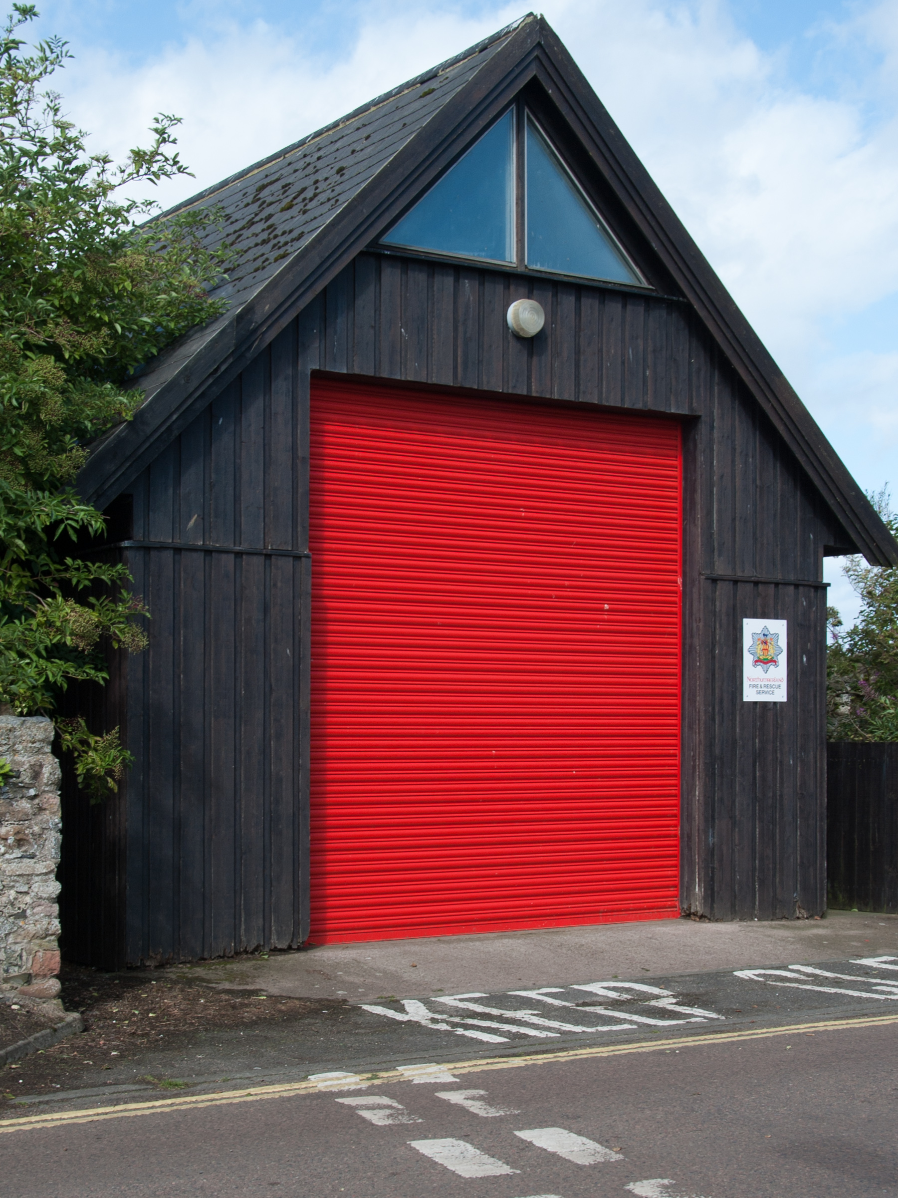 The fire station on Lindisfarne, Holy Island, Northumberland, England